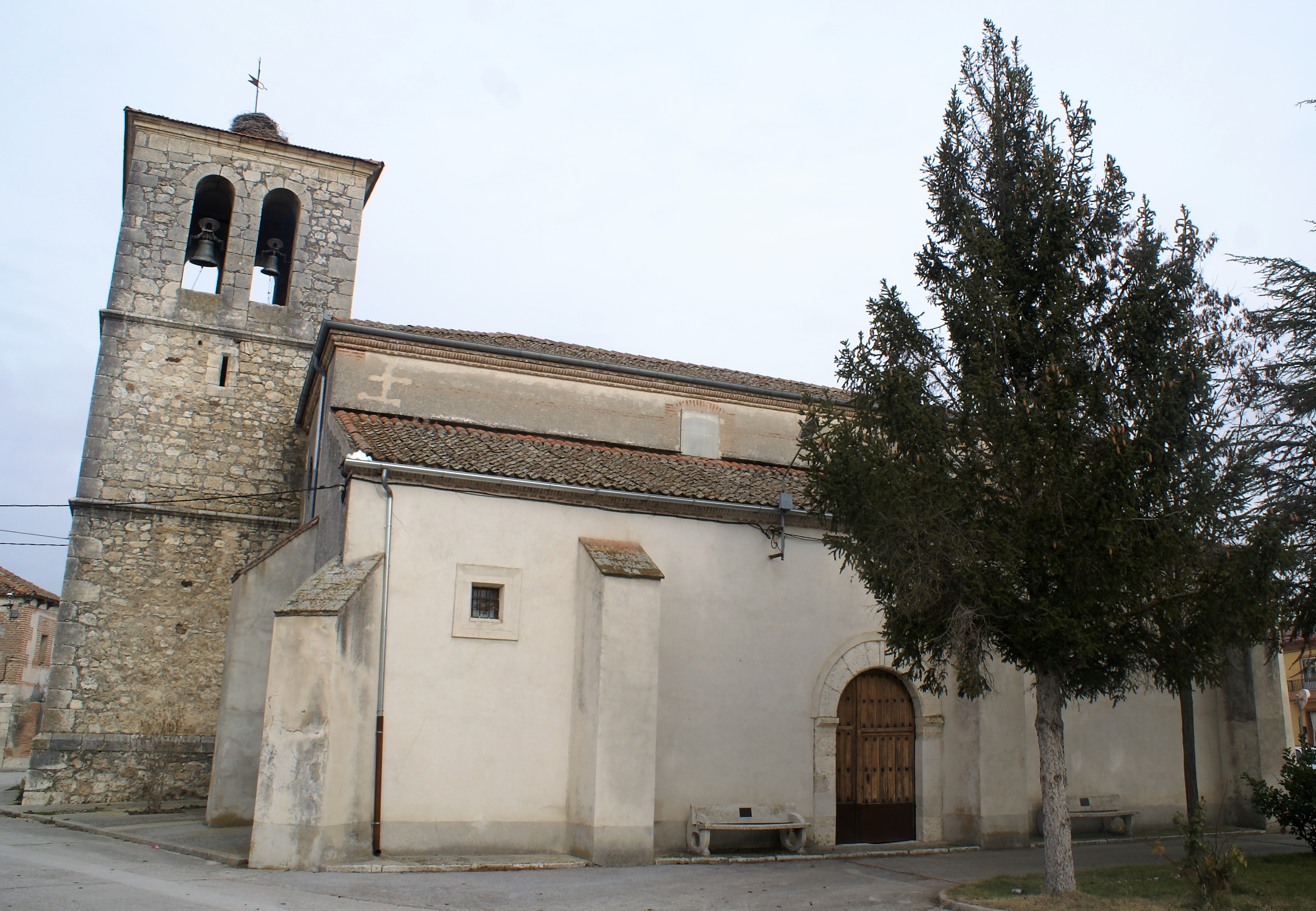 Church of St. John the Baptist, Campo de Cuéllar, Segovia, Spain.